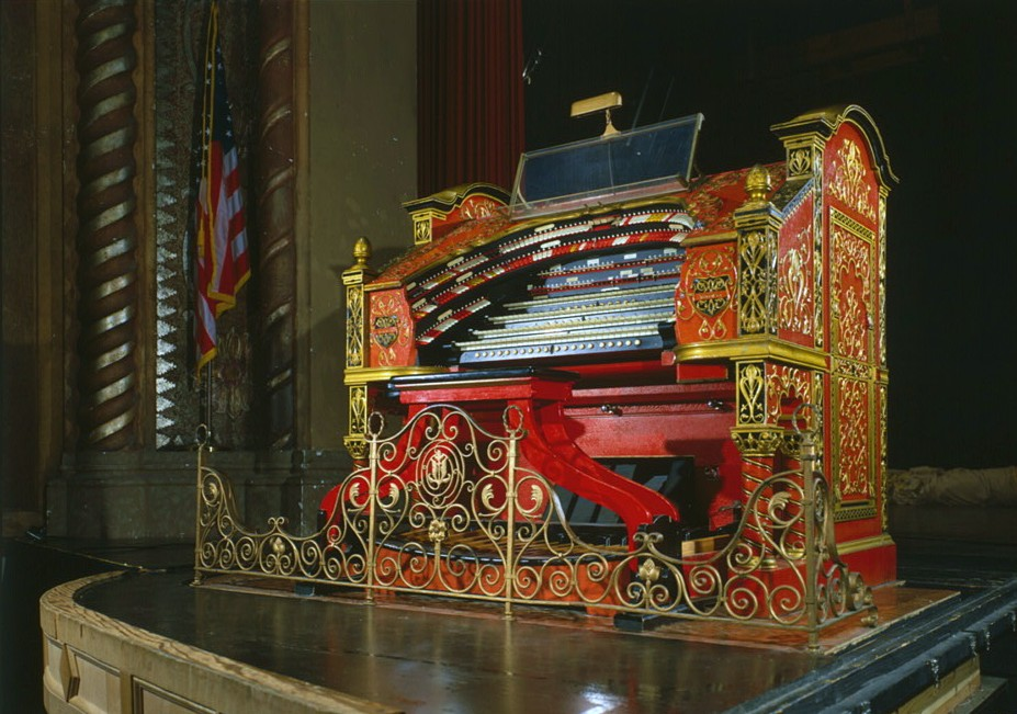 Alabama Theatre, 1811 Third Avenue North, Birmingham, Jefferson, AL.